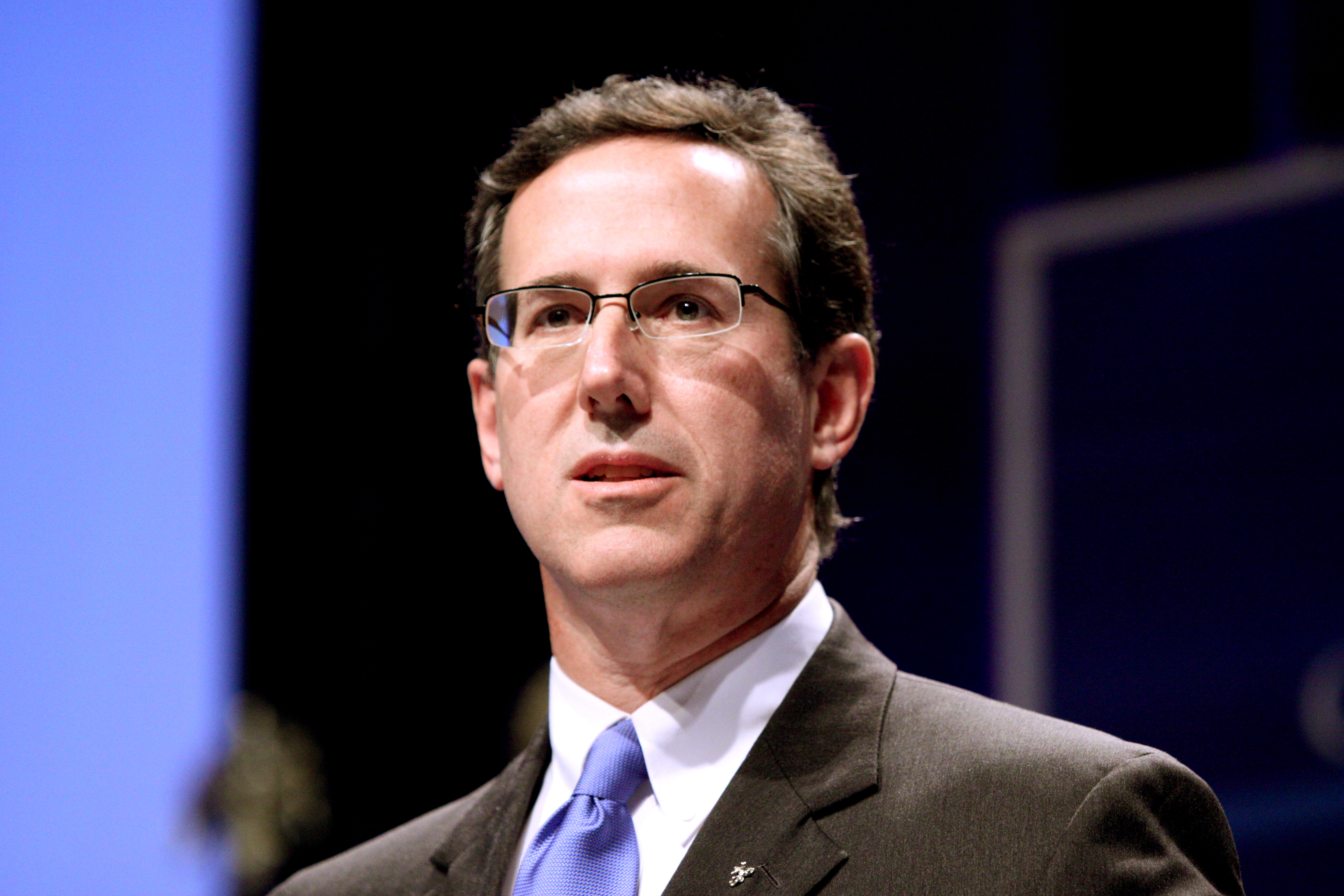 Former Senator Rick Santorum of Pennsylvania speaking at CPAC 2011 in Washington, D.C.